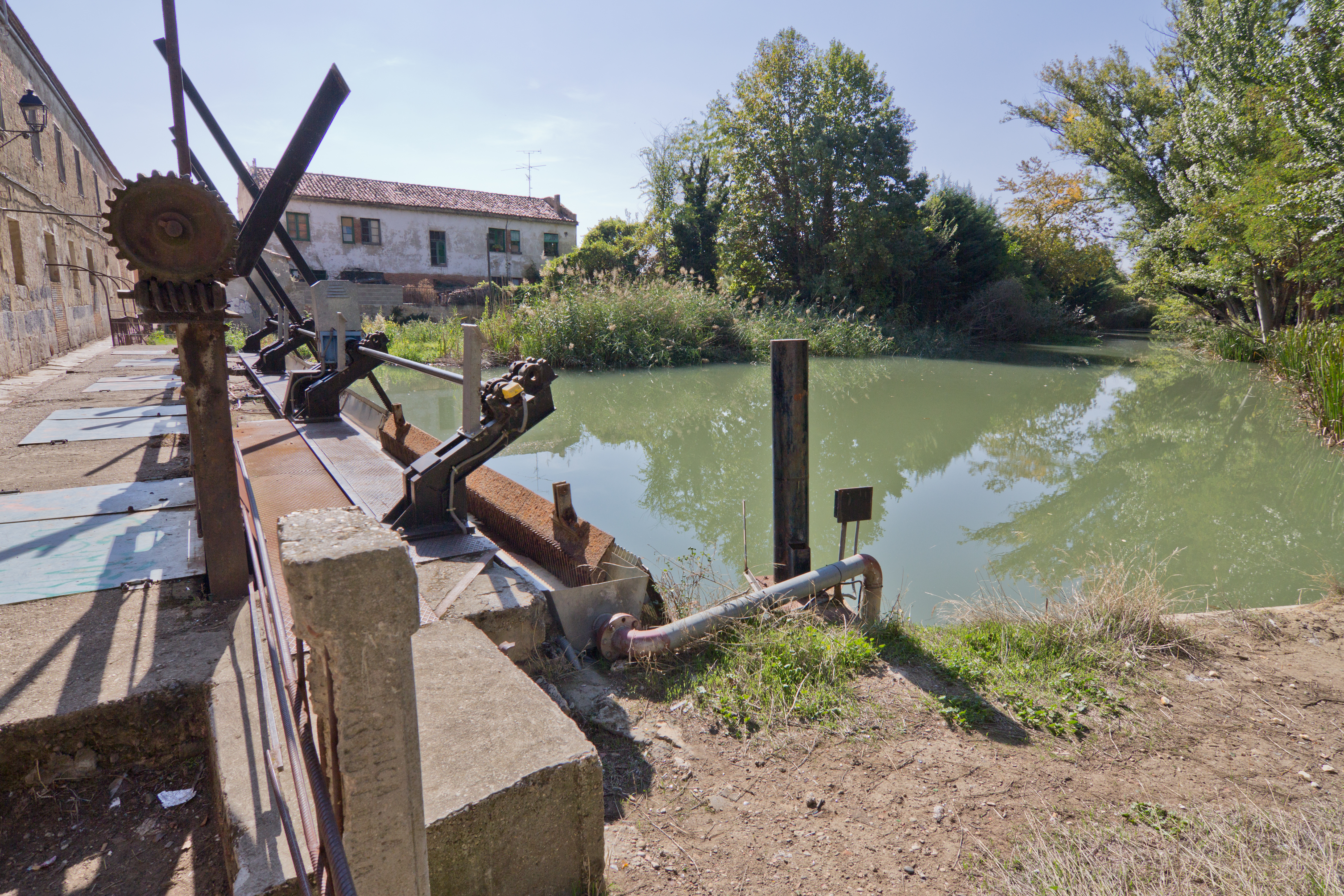 Channel of Castile in Palencia, Castile and León, Spain.